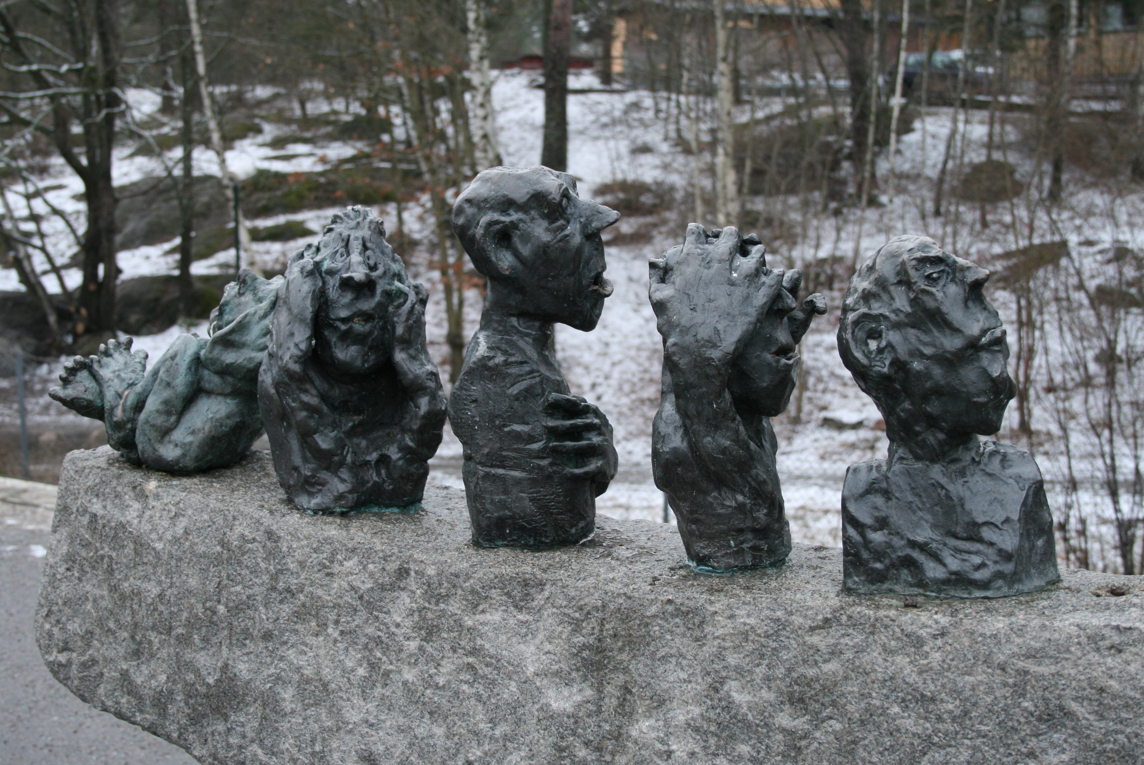 Artwork at the Stockholm metro station Sockenplan